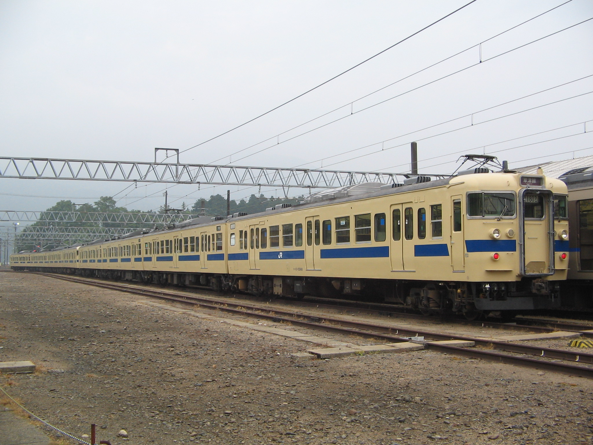 A pair of JR West 113 series EMUs in "Setouchi livery" at Tsuge Station